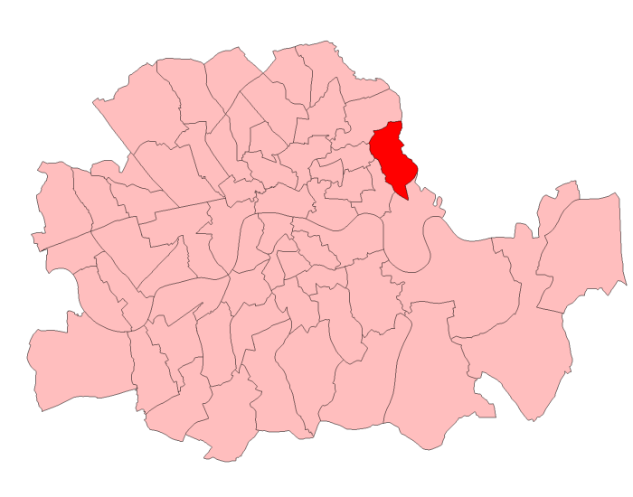 A map of Bow and Bromley constituency within the London County Council area, as it existed from 1918 to 1949.